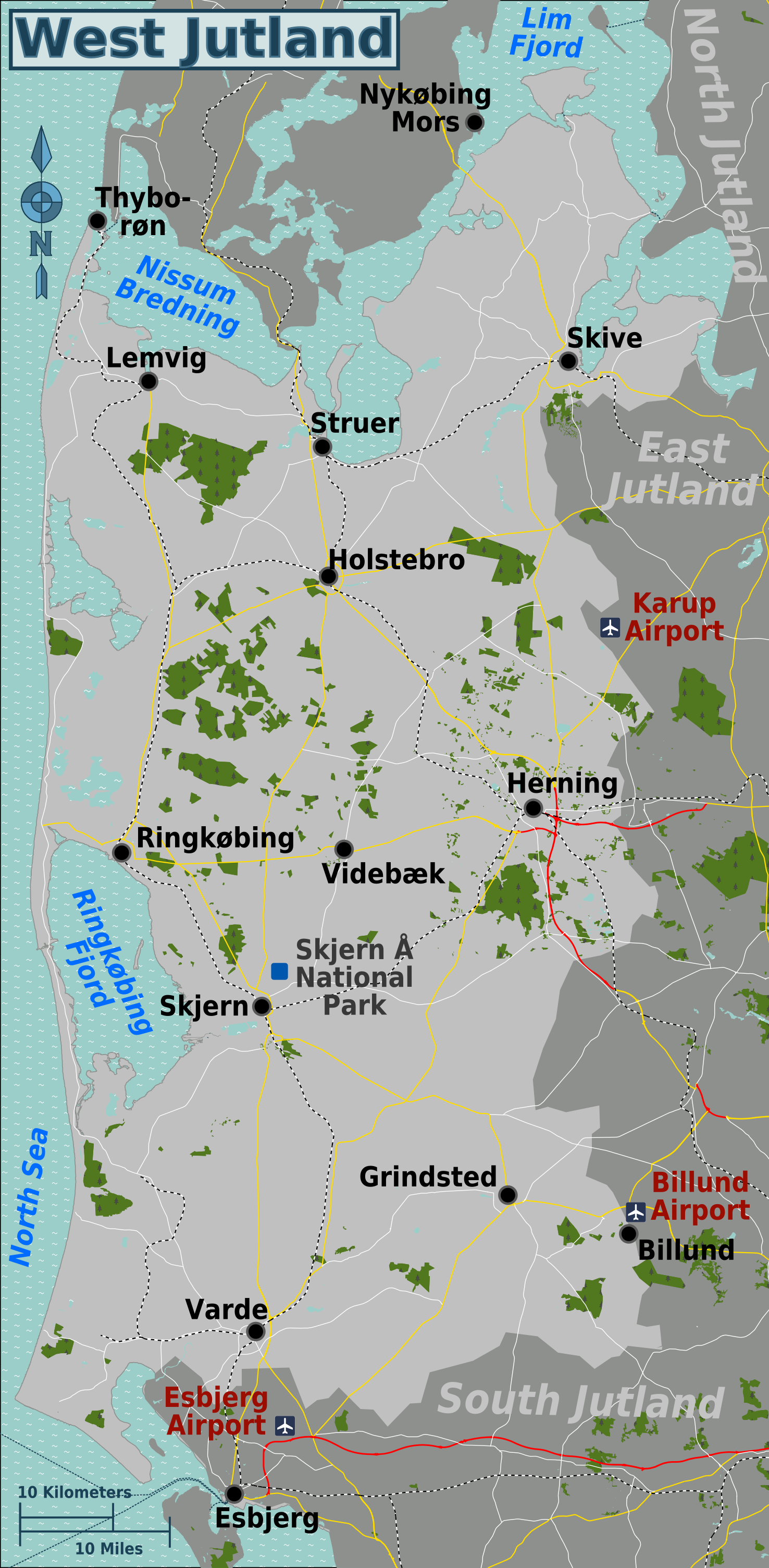 Regional map of West Jutland. Regional map of West Jutland SVG version: :Image:WestJutland.svg, Jutland Map of: Jutland¤